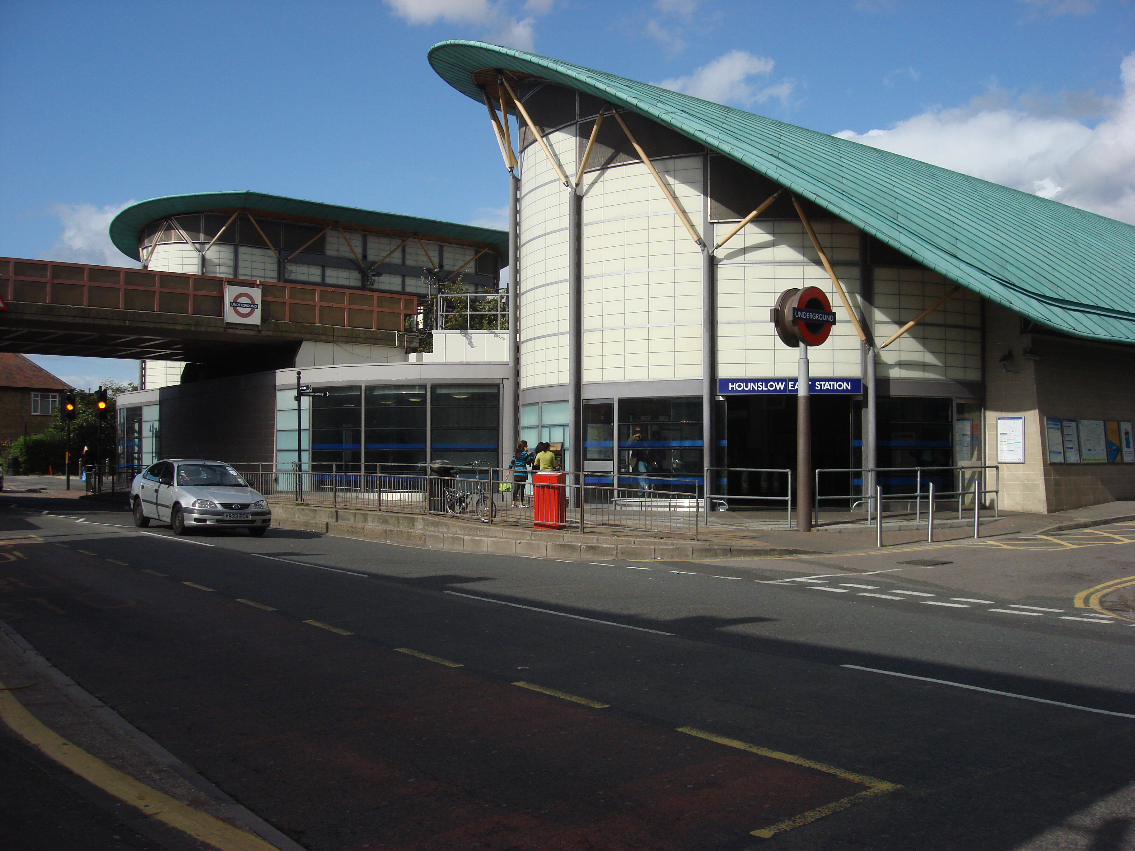 Hounslow East tube station, main building